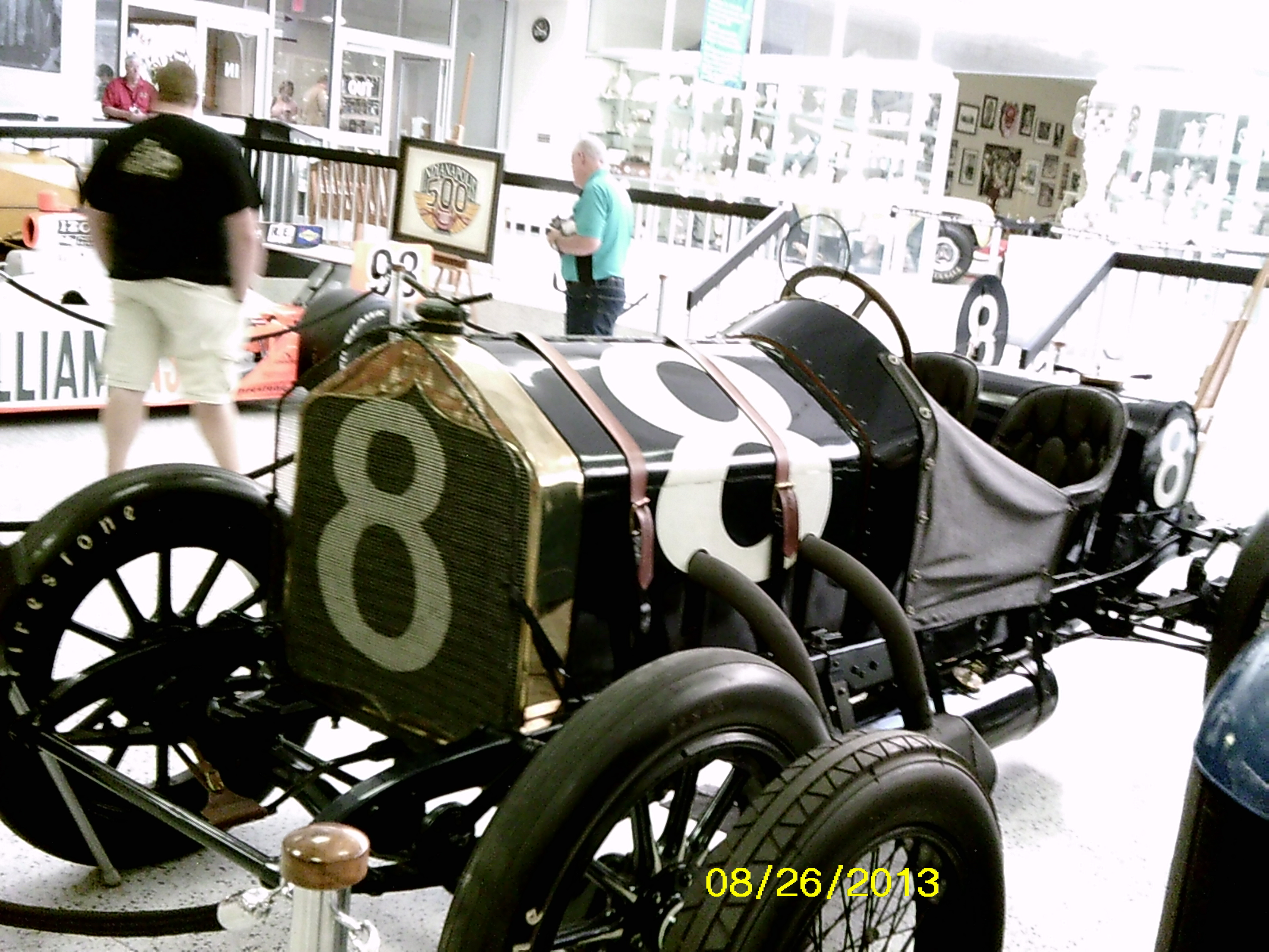 The 1912 Indianapolis 500 winning car, driven by Joe Dawson.